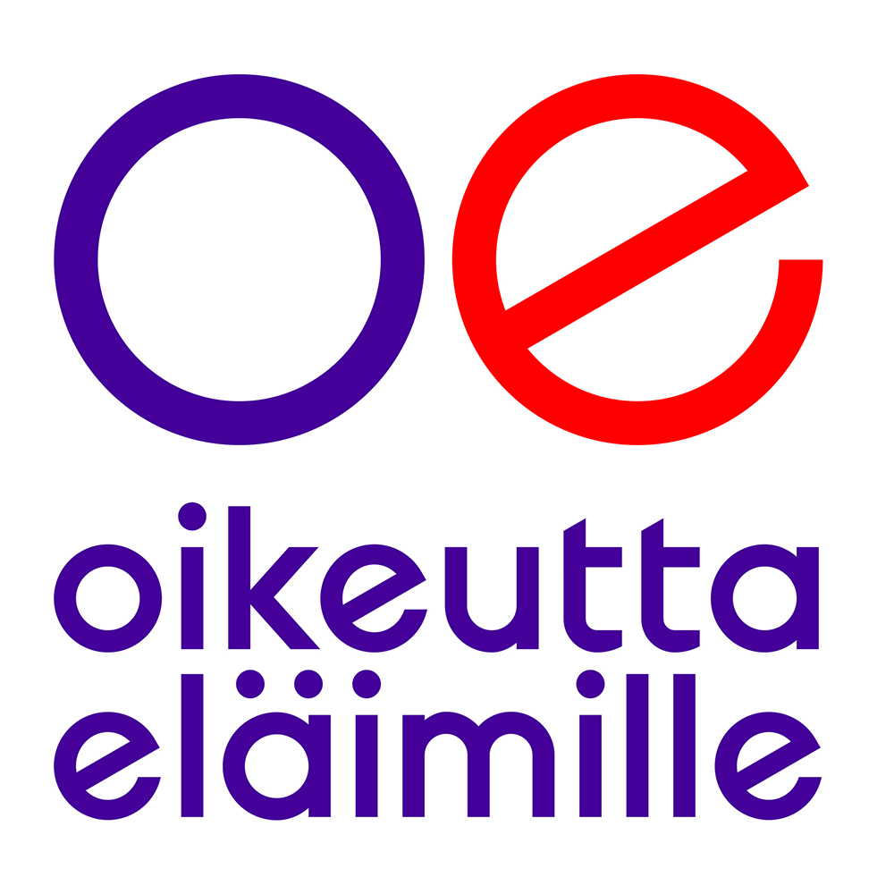 Oikeutta eläimille (Justice for animals) logo, 2019